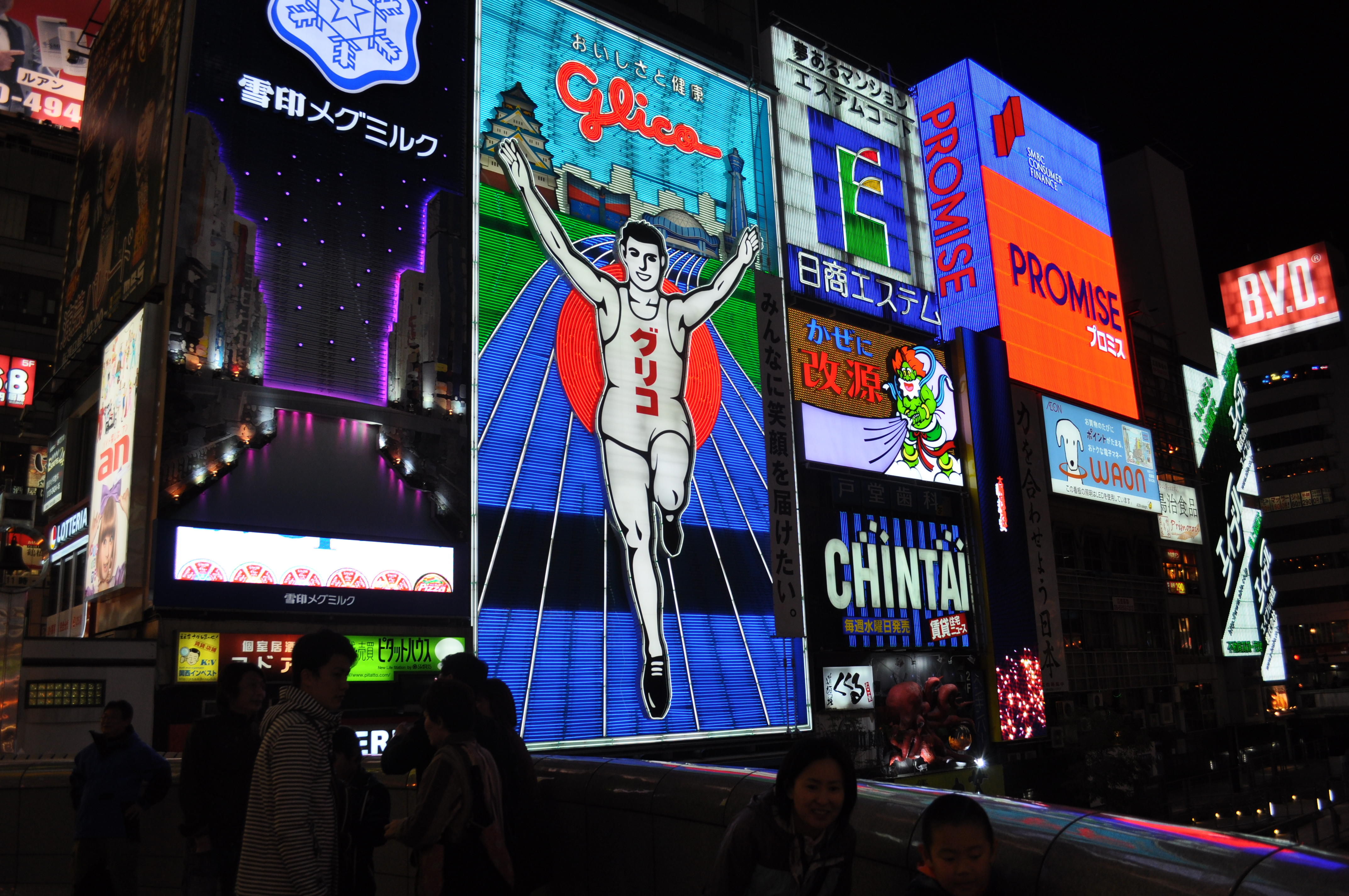 Glico Man sign, Dotonbori as seen from Ebisu-bashi